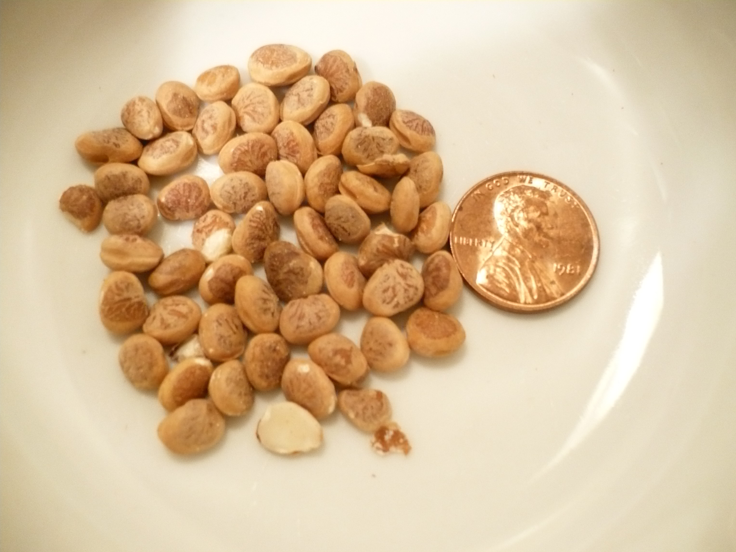 Charoli nuts, with a United States penny for size comparison. Photo taken in Kent, Ohio, United States.